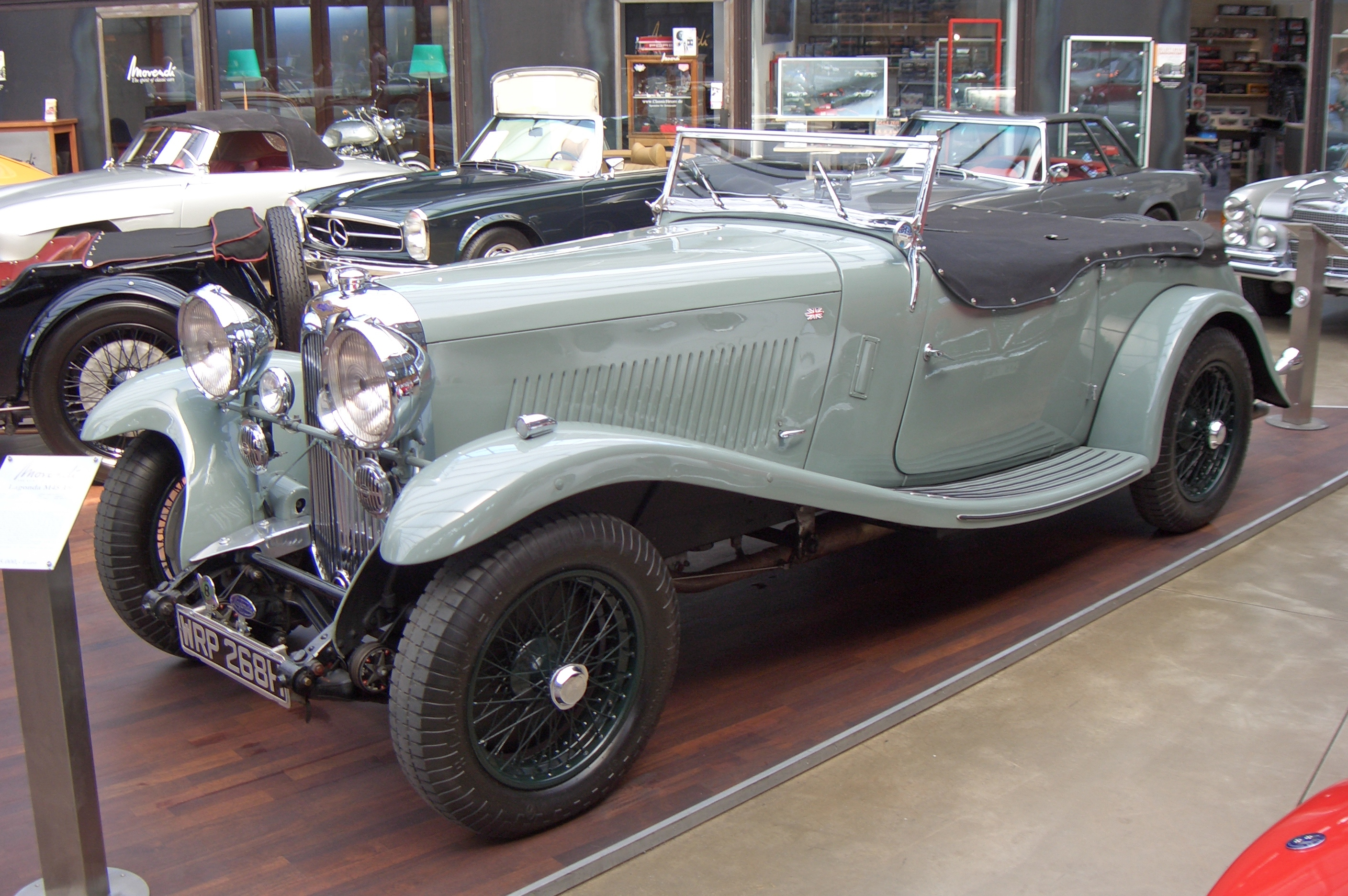 Lagonda M45 T9 Rapide Open Tourer, seen at CLASSIC REMISE, Duesseldorf, Germany